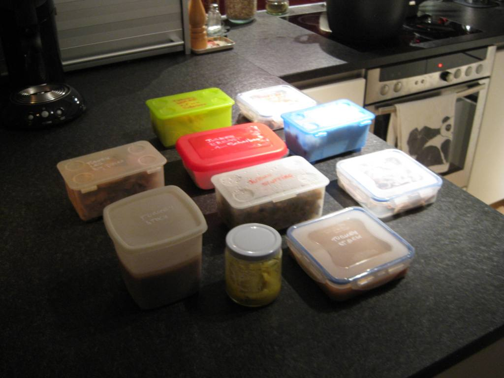 Leftovers from Thanksgiving 2009, well packaged and labeled.